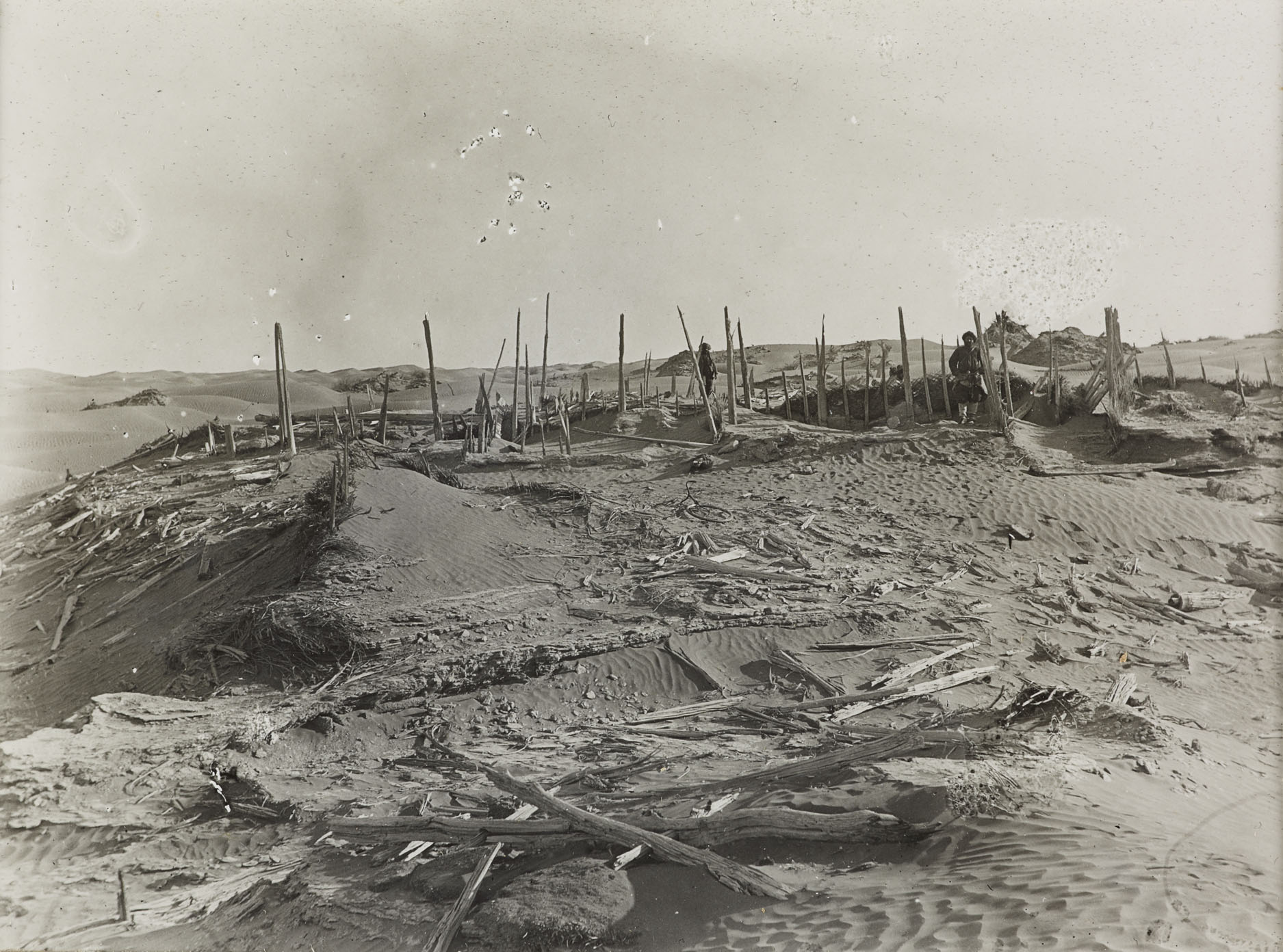 House N.I. at Niya seen from north-west (Musa at find place of manuscripts), 22 January 1931.